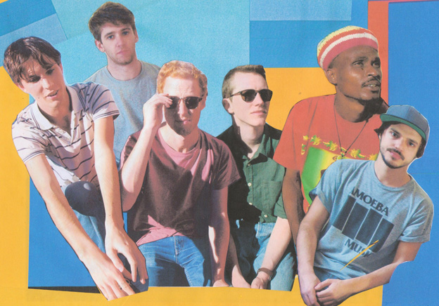 Collage from printout of digital photograph. Created for press purposes by band affiliate.